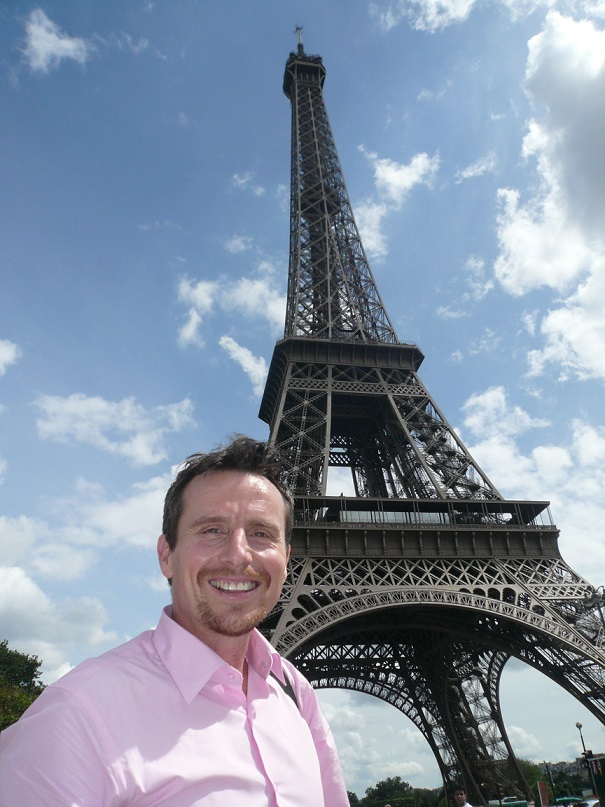 Jason Dasey in Paris to cover the 2008 French Open